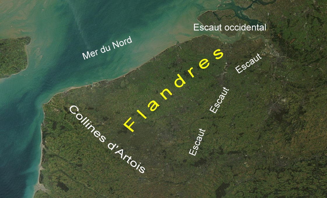 Geography of Flanders